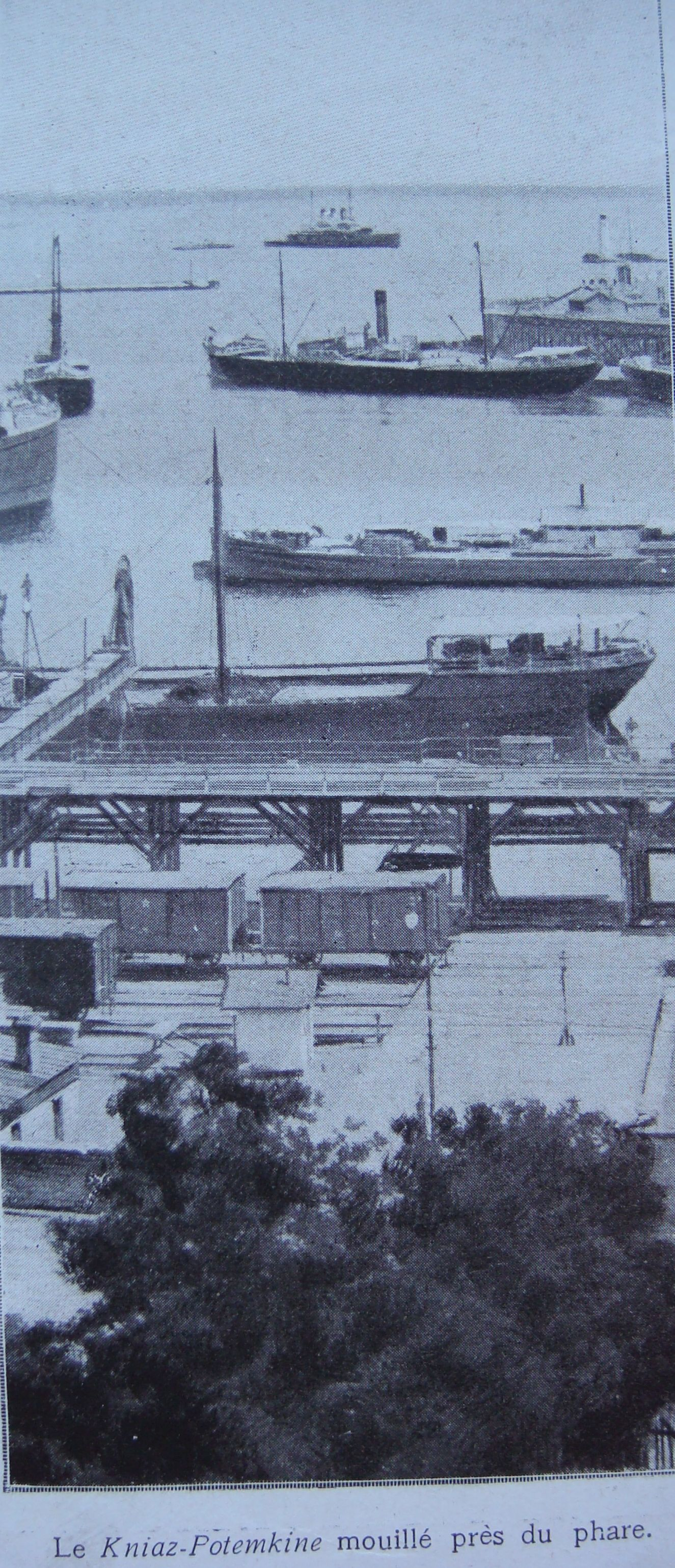 Potemkin mutiny. Odessa port. Battleship Knyaz Potemkin-Tavrichesky at the horizon, Odessa lighthouse is in the upper right corner of the picture.